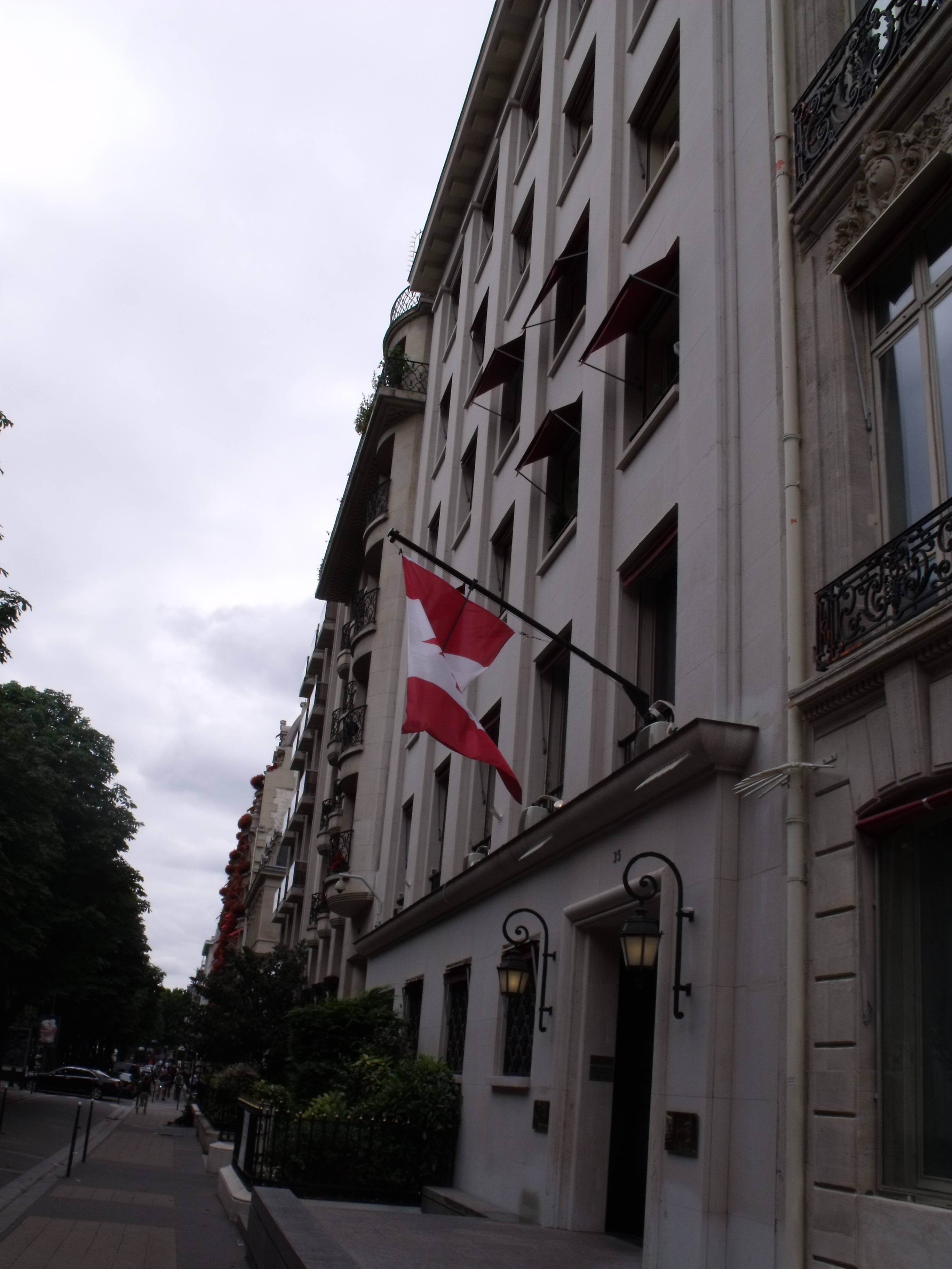 The Embassy of Canada in Paris